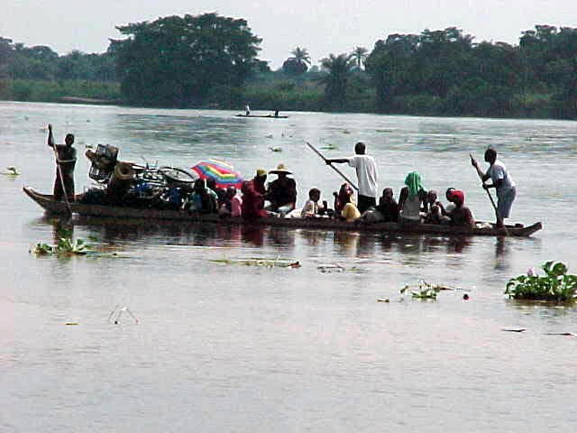 Democratic Republic of the Congo May, 2003 - Villagers are crossing the Kwilu river to reach project site in Bandundu village. (Photo by Embassy Kinshasa Self-Help Coordinator Rebecca Ward) source